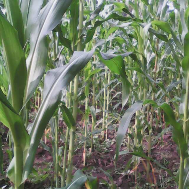 This is my maize plantation.